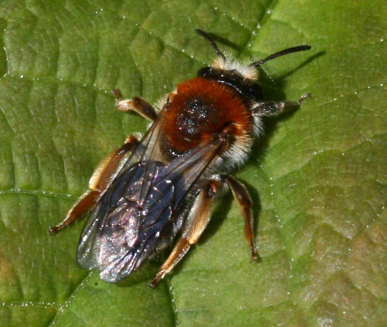 Gosford Estate, East Lothian, Scotland.